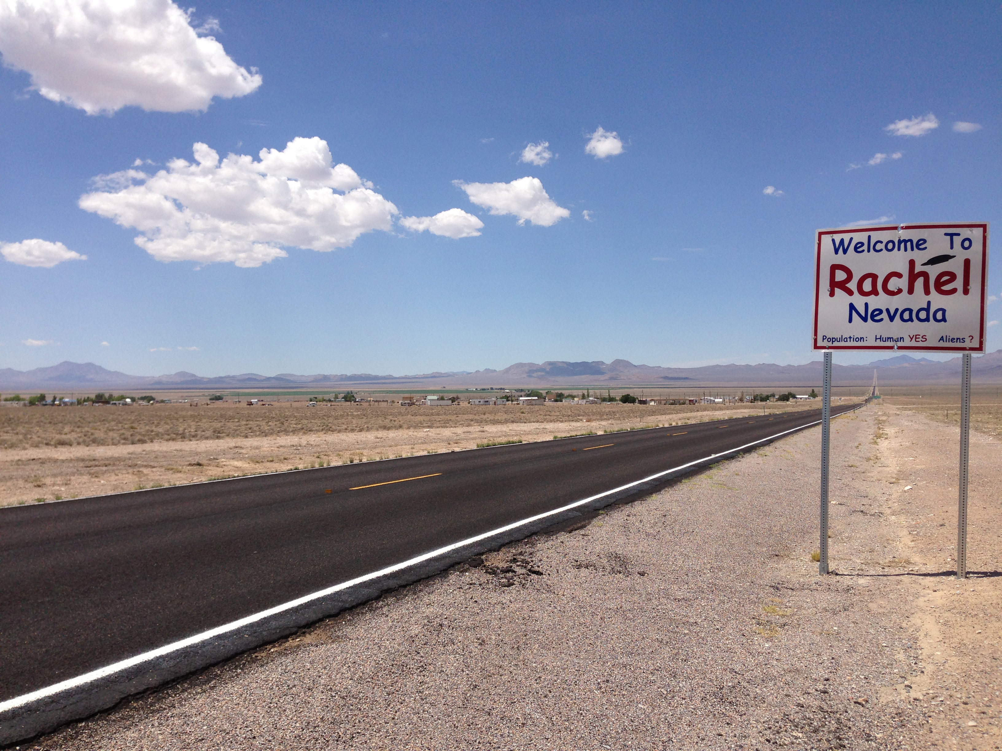 Sign for and view of Rachel, Nevada from northbound Nevada State Route 375 about 38.5 miles north of Nevada State Route 318